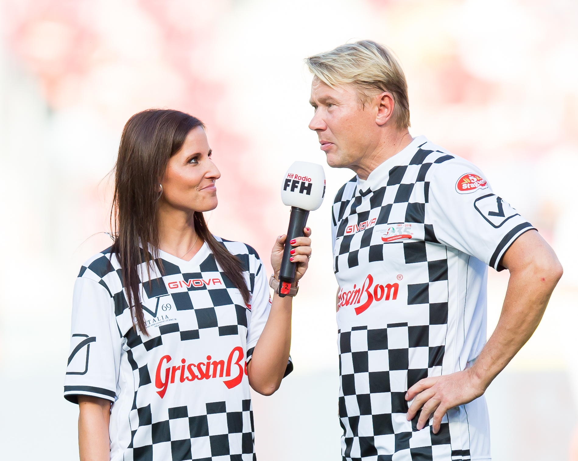 during football match between Nowitzki All Stars and Nazionale Piloti in honor of Michael Schumacher at Opel Arena, Mainz, Rheinland Pfalz, Germany on 2016-07-27, Photo: Sven Mandel